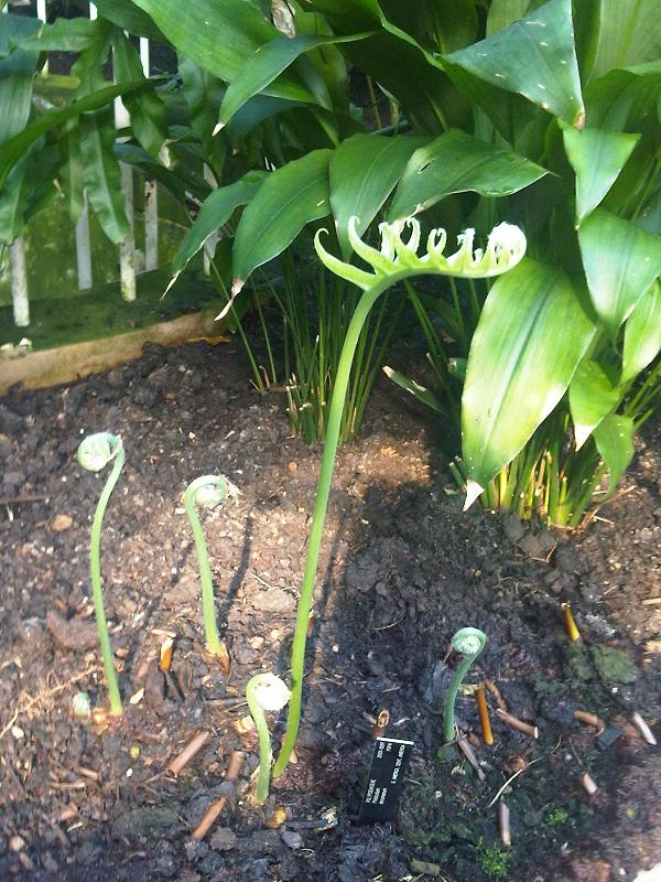 Phlebodium decumanum at Kew Gardens in London, England.